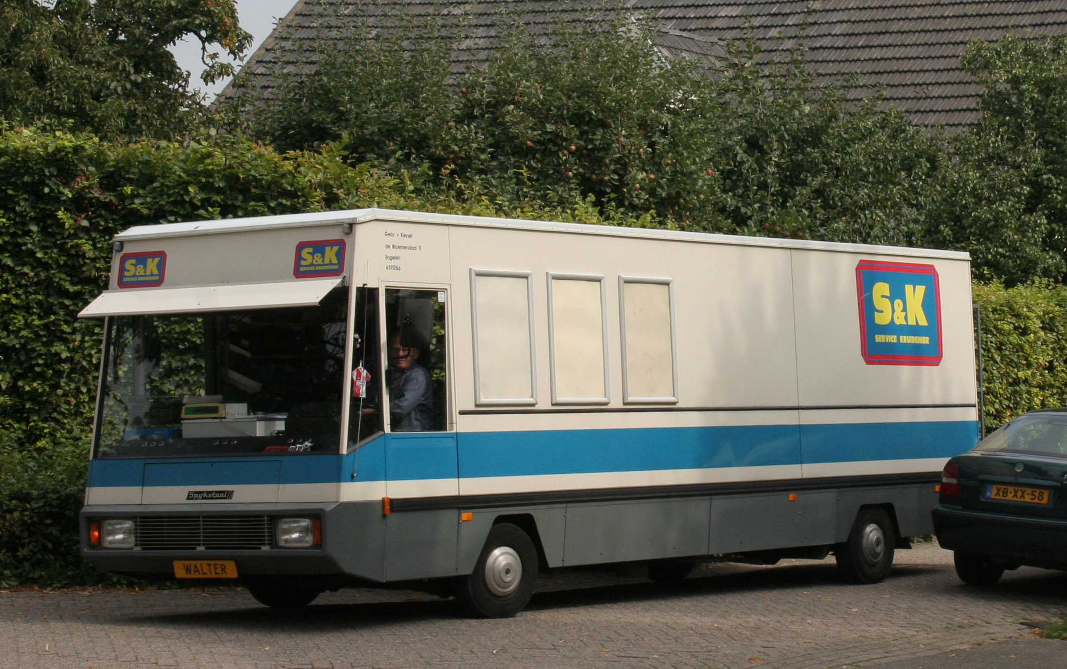 SRV-Car in Engelen, Nederland